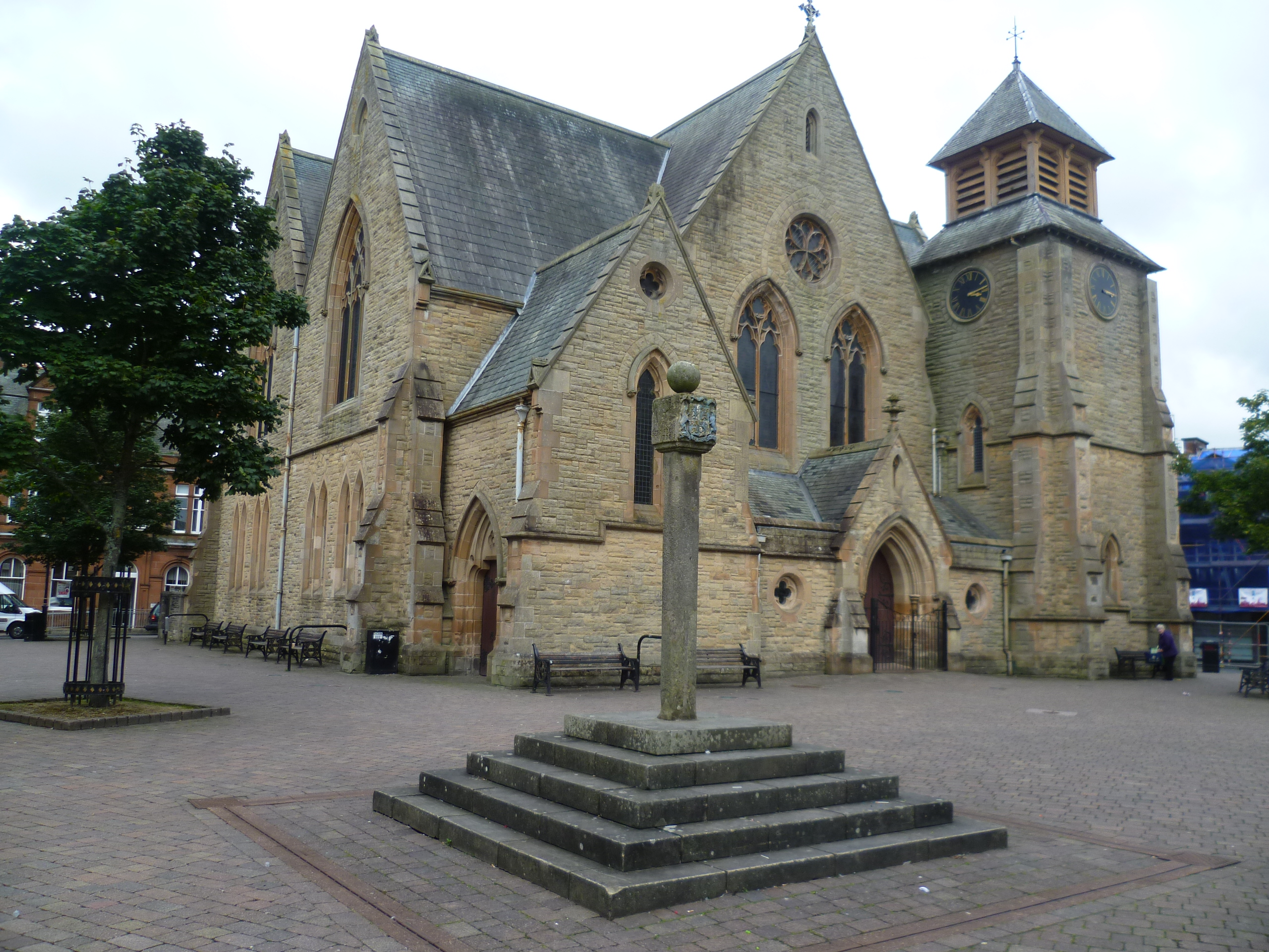 Old Cumnock Old Church and mercat cross